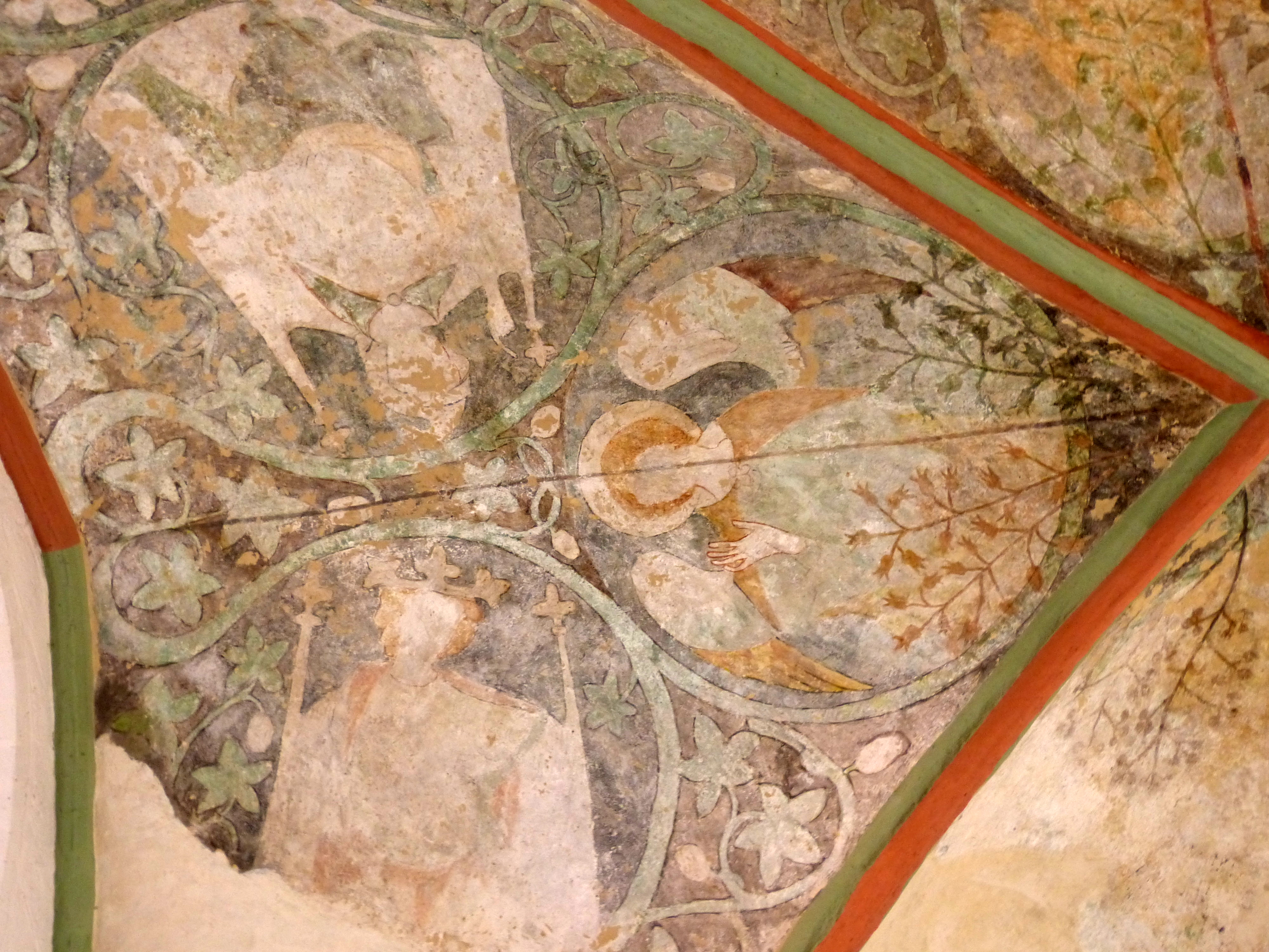 Schwerin Cathedral ( Mecklenburg ). Chapel of the Assumption of Mary: Fresco ( 14th century ) showing an angel and king.